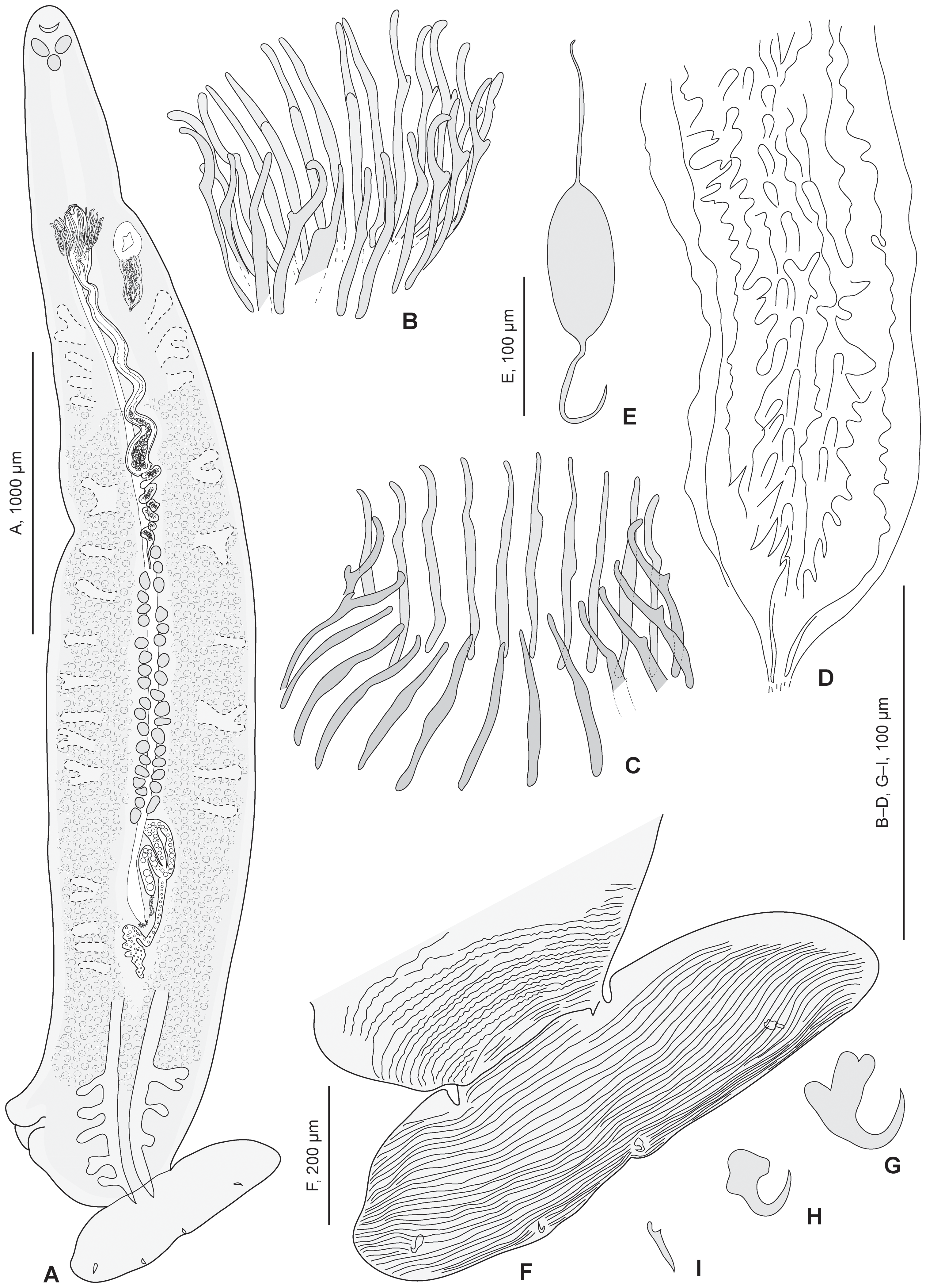 Lethacotyle vera Justine et al., 2013 (Monogenea, Protomicrocotylidae) Legend in published paper: Figure 7. Lethacotyle vera n. sp. Adult and details. Lethacotyle vera n. sp urn:lsid: :act:DA367684-AAC2-44D0-A8E8-64894AFA647A A, whole body; B, spines of male copulatory organ (MCO). C, spines of MCO in other specimen (paratype MNHN JNC1189A3). D, sclerotized vagina. E, egg, in utero. F, striations on posterior part of body; G, H, I, hooks (paratype MNHN JNC1185A3). A, B, D, F: holotype, MNHN JNC3209A1.